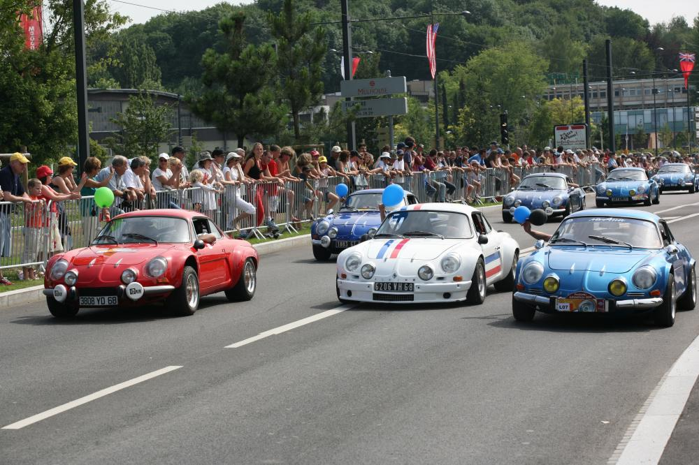 Festival de l'Auto